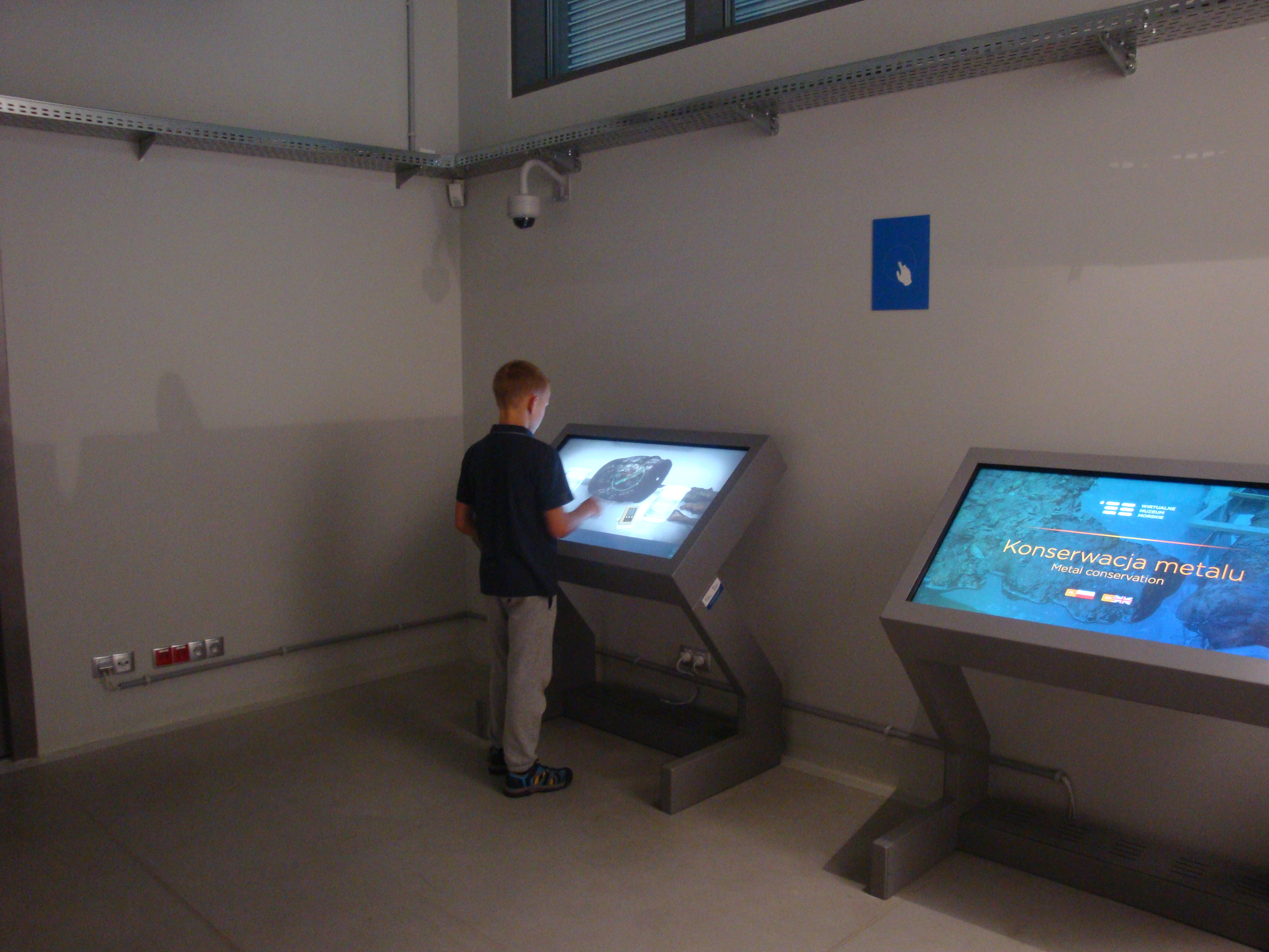 Interactive display in Shipwreck Conservation Centre in Tczew, Poland. Centrum Konserwacji Wraków Statków (Shipwreck Conservation Centre) in Tczew is branch of National Maritime Museum in Gdańsk, Poland. Museum takes care about relicts of ships and boats and keeps exhibition of renovated items.